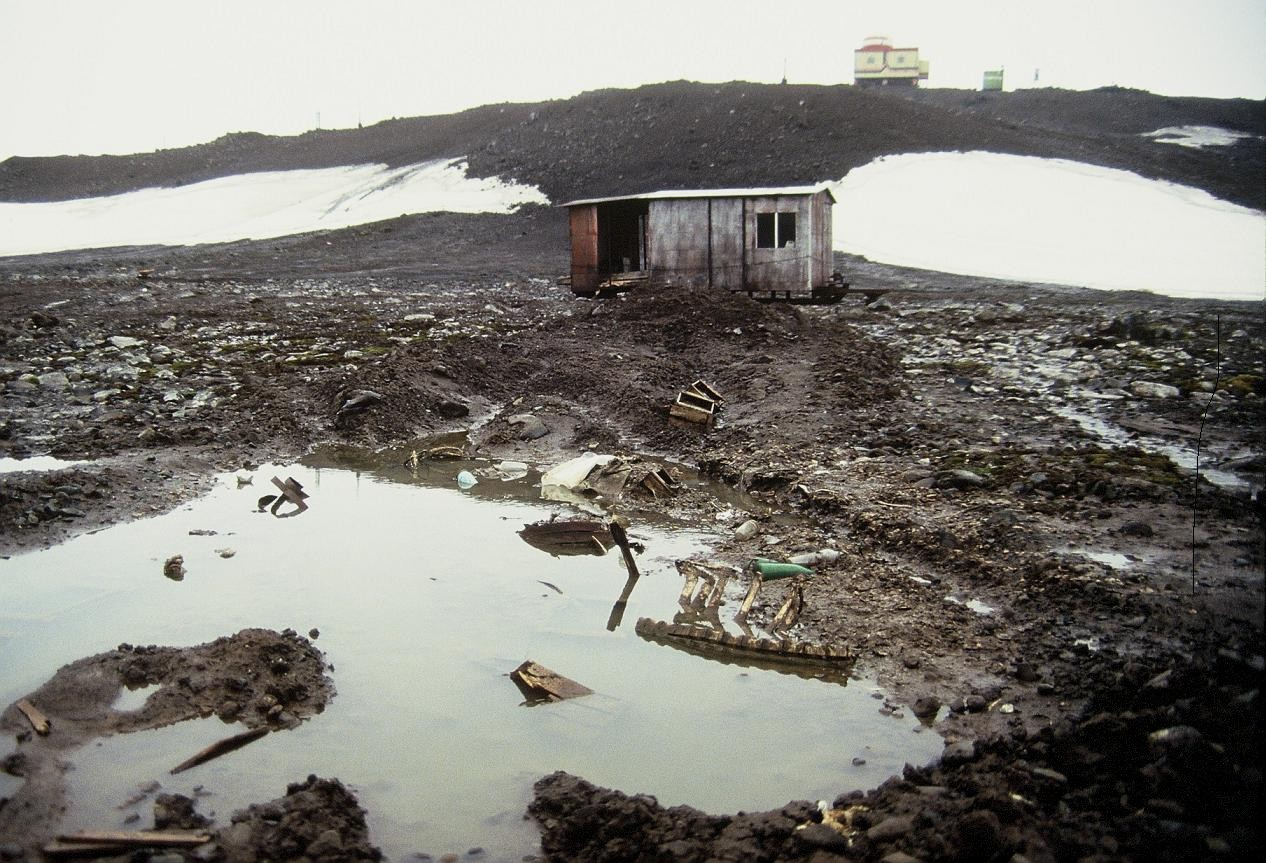 A muddy scene at Bellingshausen, a Russian Antarctic base on King George Island. On the hilltop a Russian Orthodox church (Trinity church) was built in 2004.